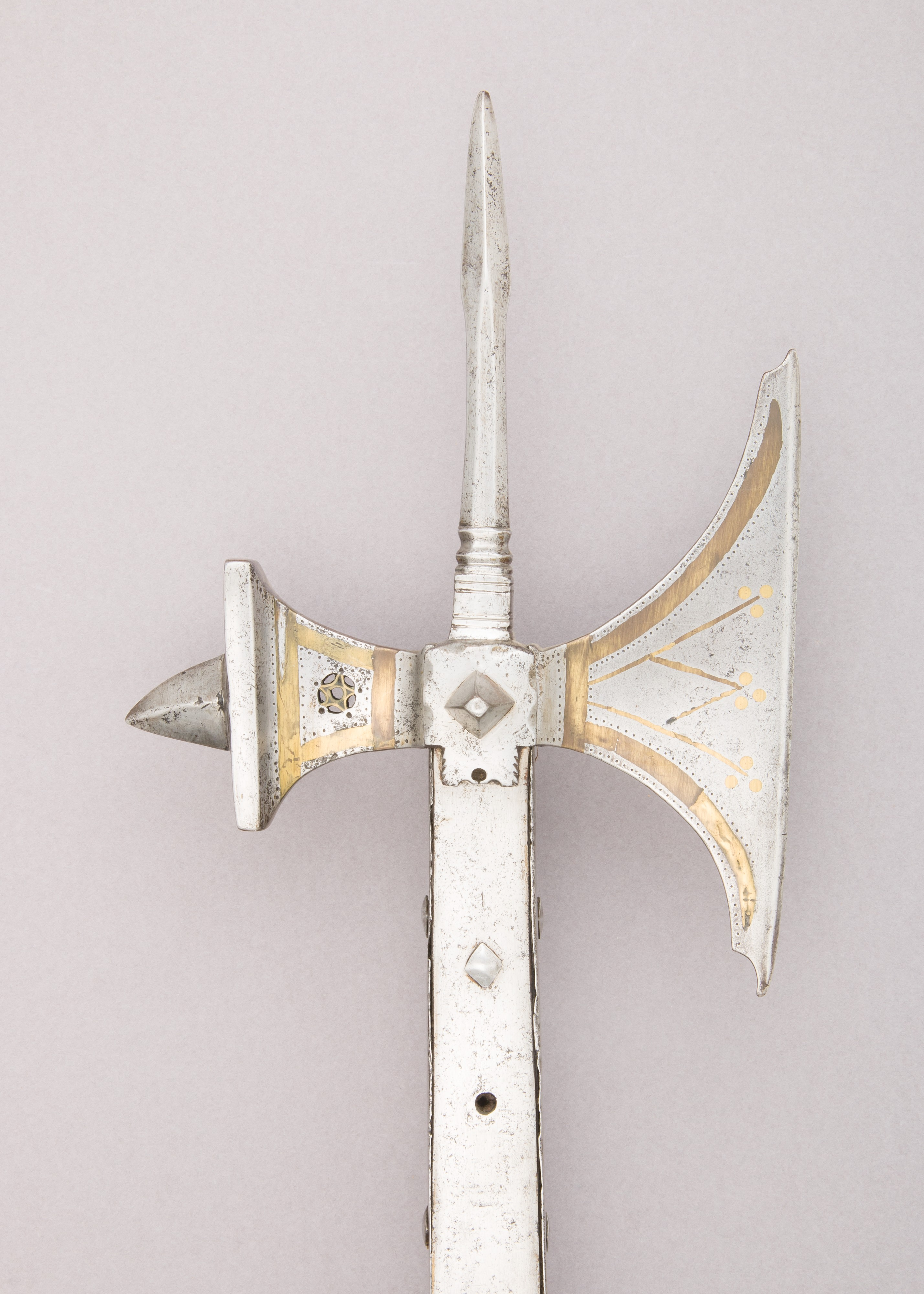 French, Burgundy; Pollaxe; Shafted Weapons